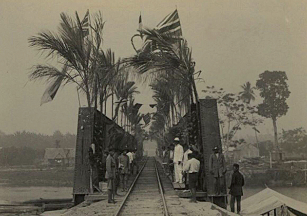 The opening of Papar railway bridge in 1915, officiated by the Papar British Residency.